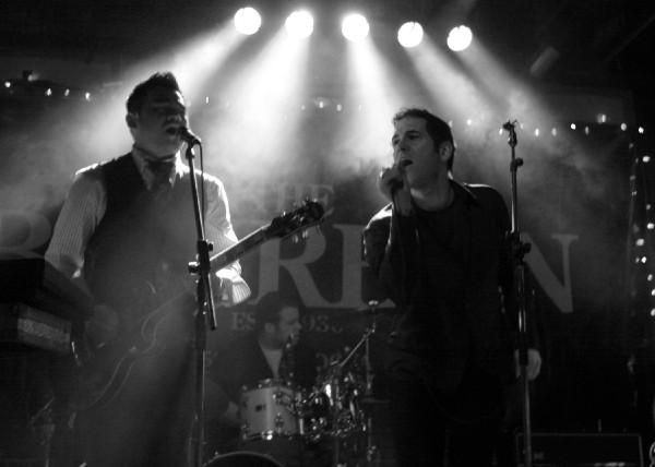 Live Performance @ The Bourbon, Vancouver, BC, 2009